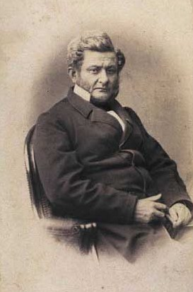 Johannes Peter Langgaard (1811-1890), Danish mechanic and industrialist